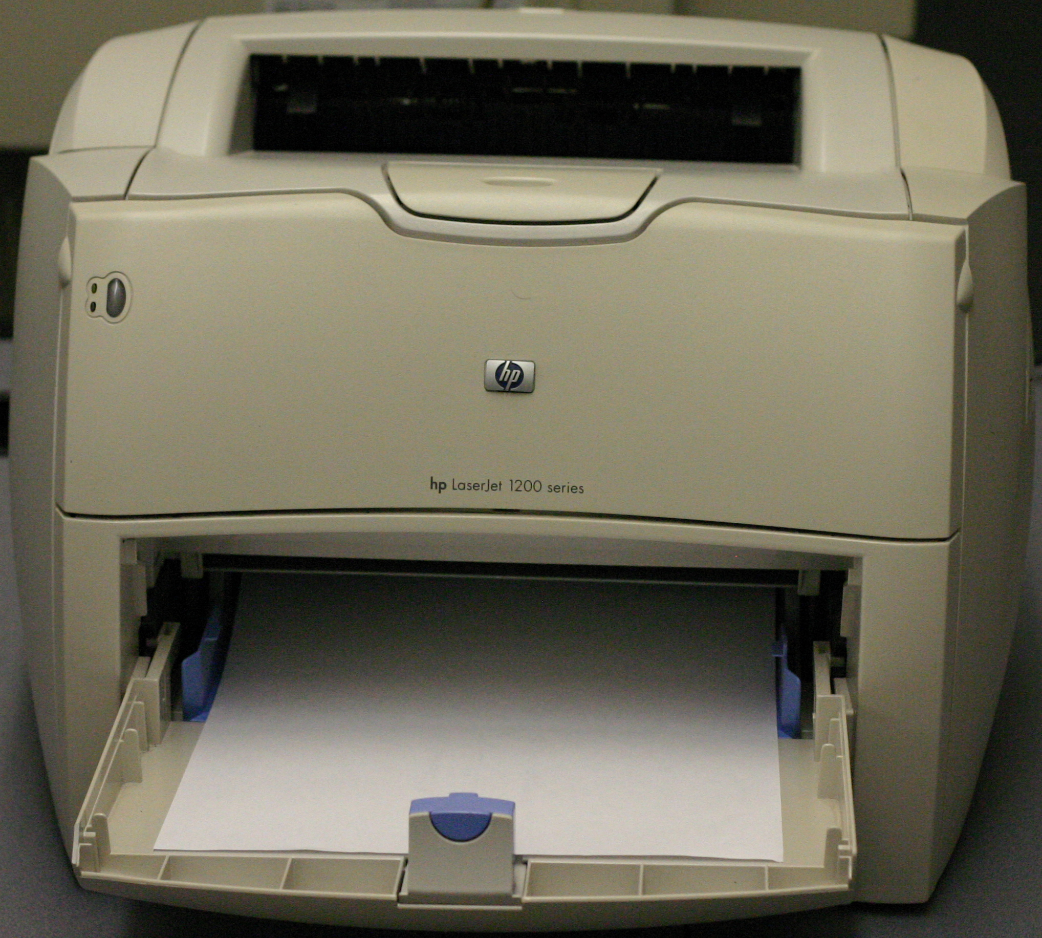 An HP LaserJet 1200 printer.